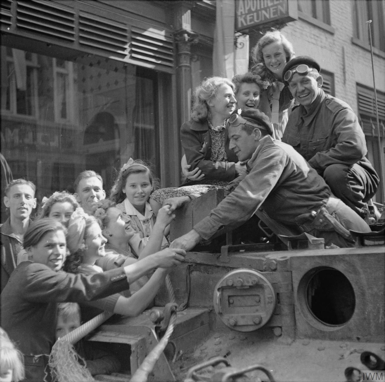 The British Army in North-west Europe 1944-45 The crew of a Cromwell tank is welcomed by Dutch civilians in Eindhoven, 19 September 1944.